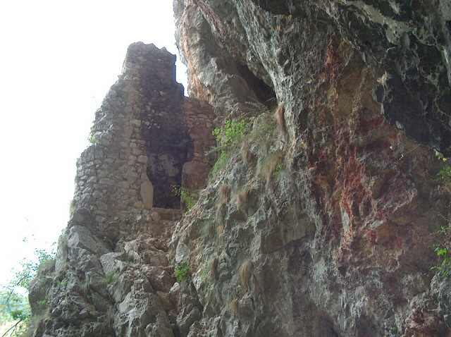 "Portus Crisy" ruined tower - Vadu Crisului gorge, BH Romania